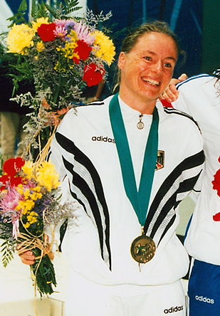 Paralympic athlete Claudia Hengst